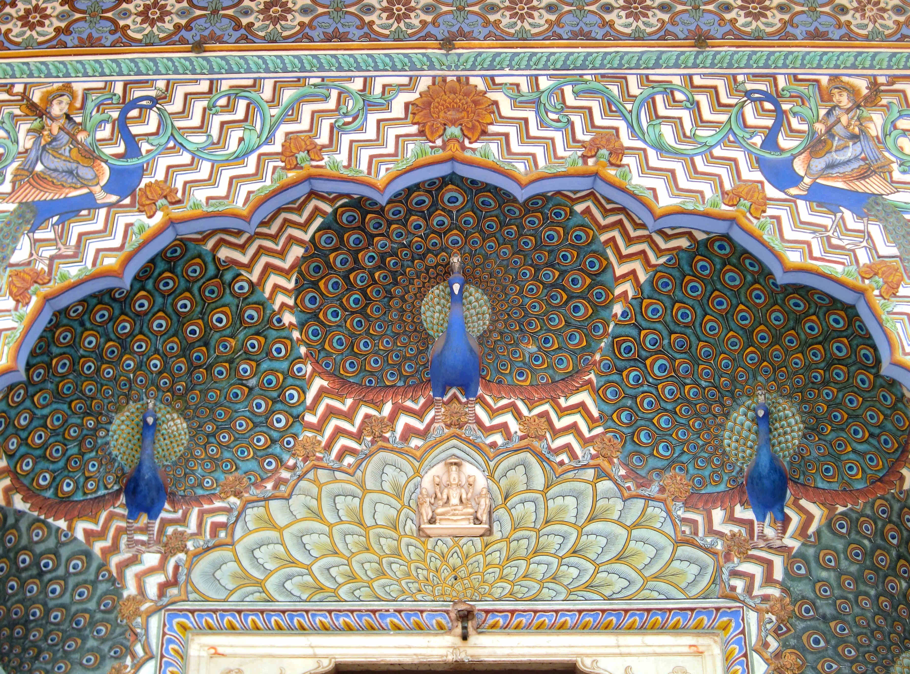 One of the four painted doorways at the Pritam Niwas Chowk at the City Palace in Jaipur. Detail